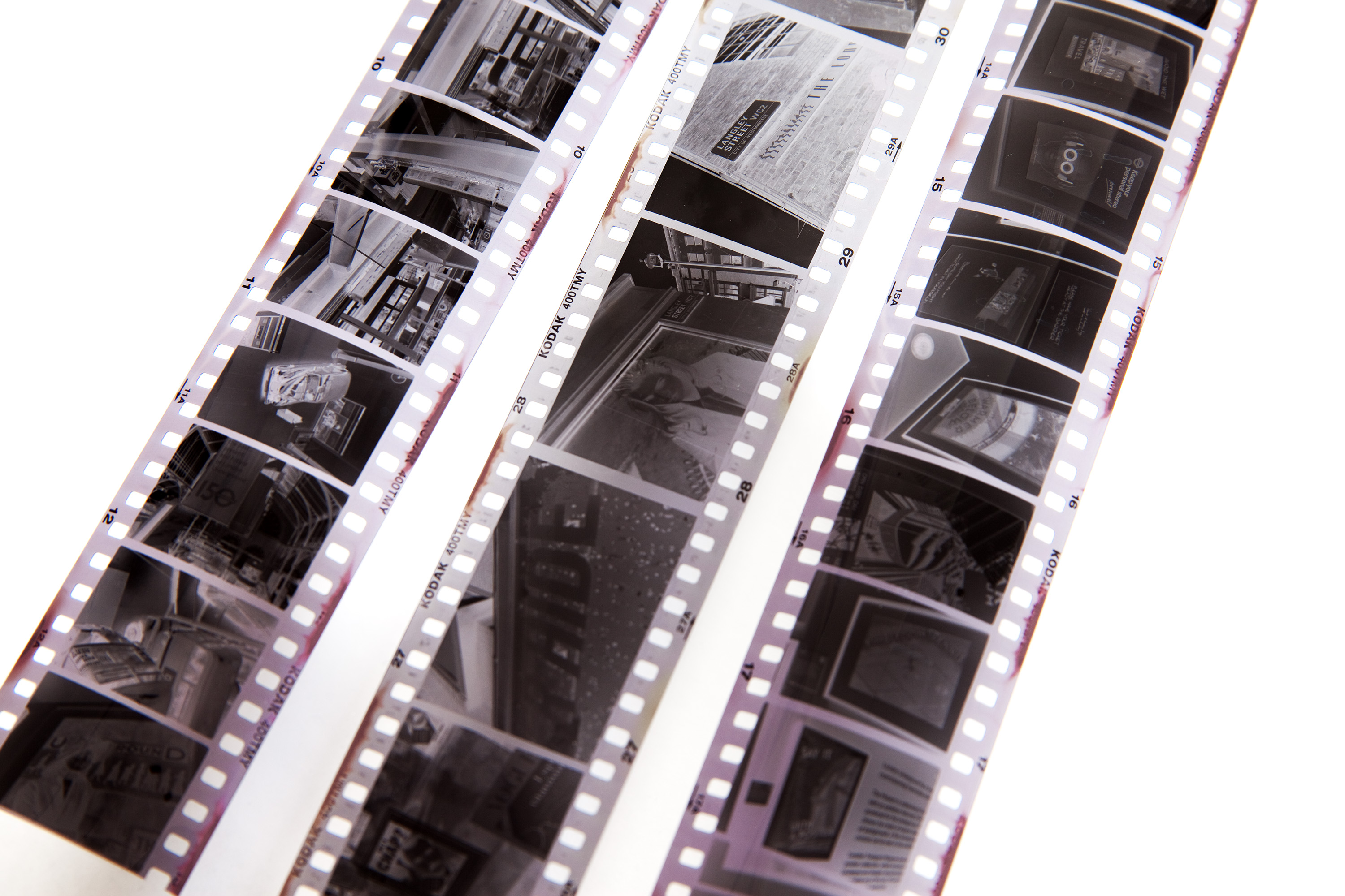 A comparison of half-frame 35mm (left and right) with standard 35mm (middle).